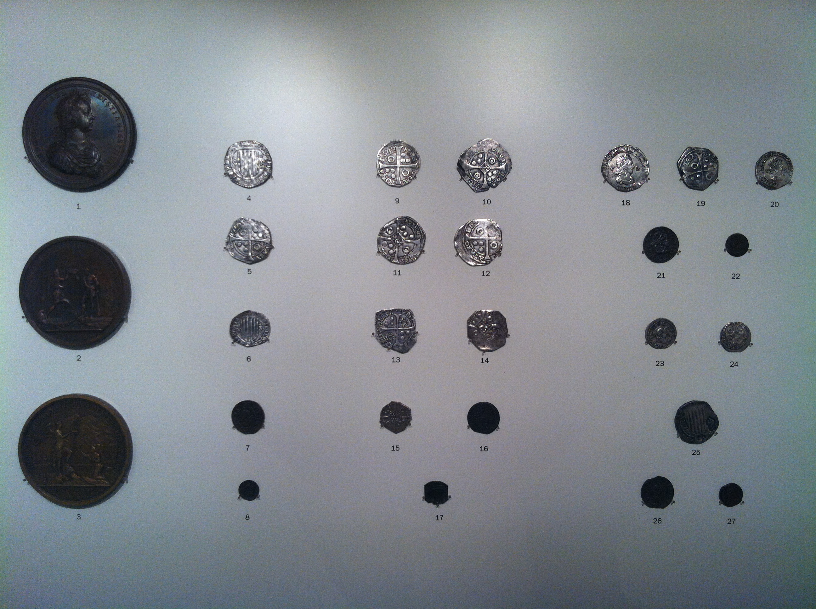 Numismatic collection conserved at MNAC in Barcelona.The collection of the Numismatic Cabinet of Catalonia, open to consultation by researchers, is formed by over 135,000 pieces. The principal numismatic series are represented here, with coins dating from the 6th century BC to the present day, as well as medals, valuable paper, tokens, monetary weights, scales, dies, decorations and insignia. Of all this wealth of material, the most important and emblematic series are without doubt the Catalan ones. They include extremely rare pieces, such as the first silver coins ever struck in the Iberian Peninsula by the Greeks of Emporion, the issues of the Catalan counties, those of the 17th-century Reapers’ War, those of the Napoleonic invasion and the bank notes issued by local councils in Catalonia during the Civil War of 1936-1939